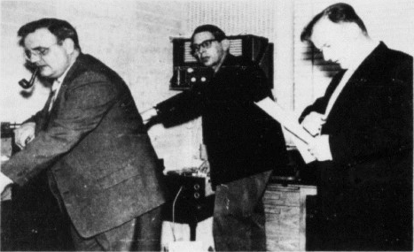 Staff of Faroese broadcasting station Útvarp Føroya in its early years, at some point between 1957 and 1960. From left to right: Niels Juel Arge, Elias Johansen and Axel Tórgarð, director of the station